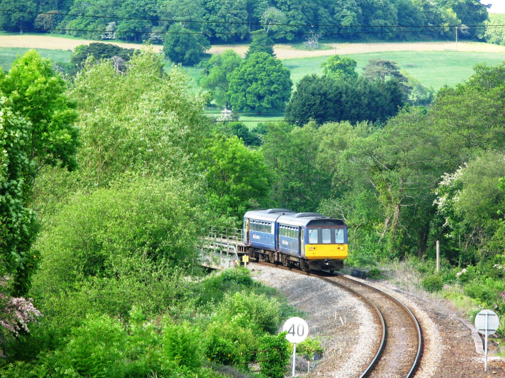 First Great Western 142009 crosses the river Exe at cowley bridge Junction with a Tarka Line service from Barnstaple to Exmouth.